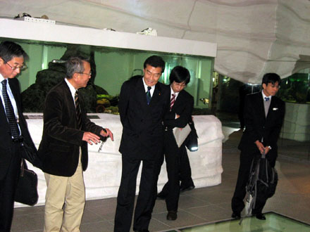 Katsuhiko Yokomitsu, Senior Vice-Minister of the Environment, inspected Niigata Learning Center for Humans and the Environment in Niigata City, Niigata Prefecture on November 20, 2011.